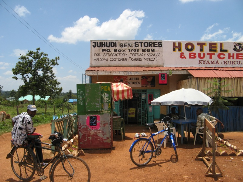 Bungoma, Kenya